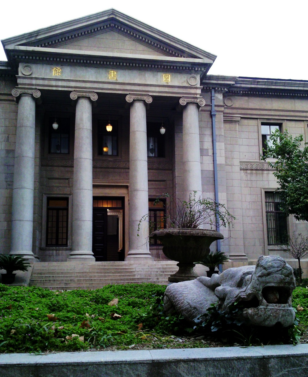 Mengfang Library, built in 1923.中文（中国大陆）: 孟芳图书馆。１９２１年，东南大学成立时向社会募捐图书馆经费，经校长郭秉文奔走，终获江苏督军齐燮元捐助，独资建馆并置配套设备。１９２２年立基，１９２３年落成，耗资１６万银元。建成后，以齐父之名命名为孟芳图书馆。张謇题匾。其两翼及书库，系１９３３年扩建，总面积３８１３平方米。图书馆建筑造型为西方古典建筑风格，比例匀称，构图稳实，风格隽雅，入口爱奥尼柱廊及墙面装饰细部极为精美，是国内近代建筑的优秀作品。